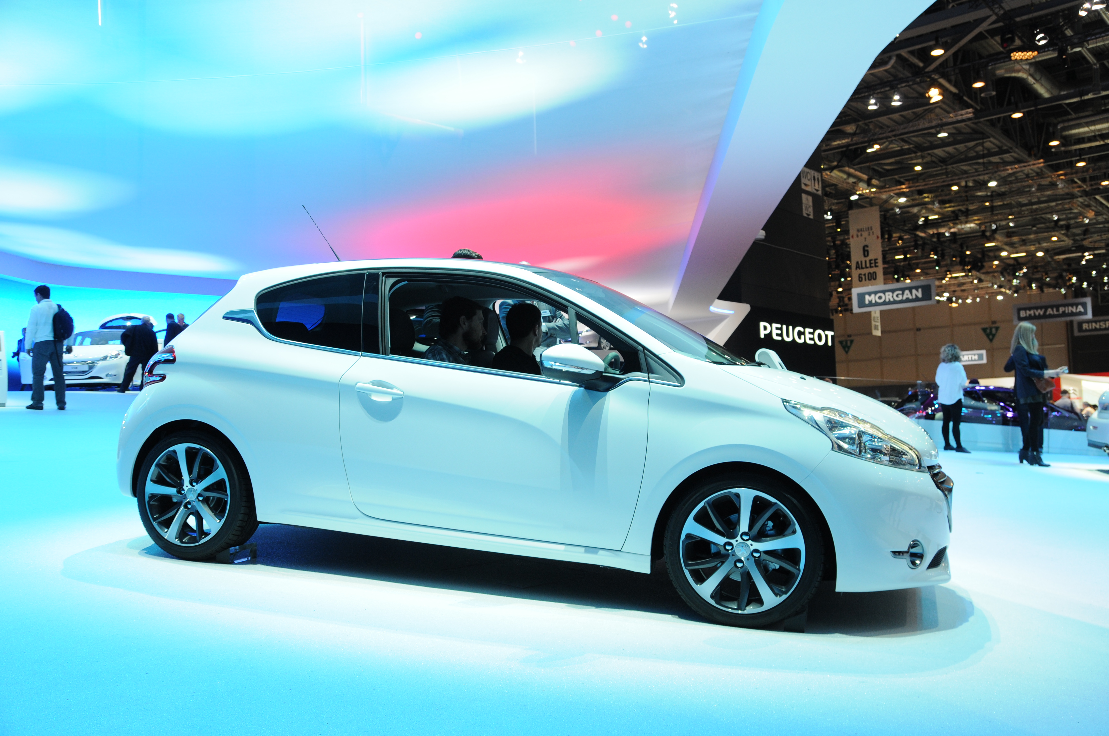 Geneva Motor Show 2012 (photos taken on the second press day)